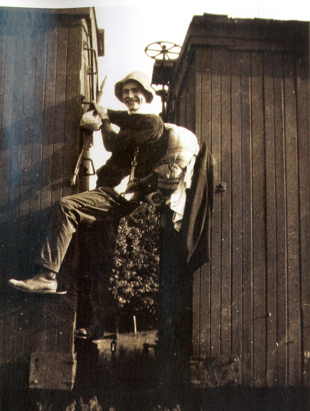 Ernest Hemingway hopping a freight train between boxcars to get to Walloon Lake.